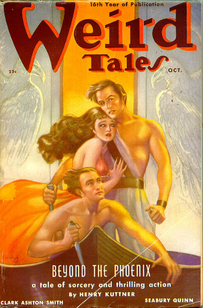 Cover of the pulp magazine Weird Tales (October 1938, vol. 32, no. 4) featuring Beyond the Phoenix (an Elak short story) by Henry Kuttner. Cover art by Margaret Brundage.